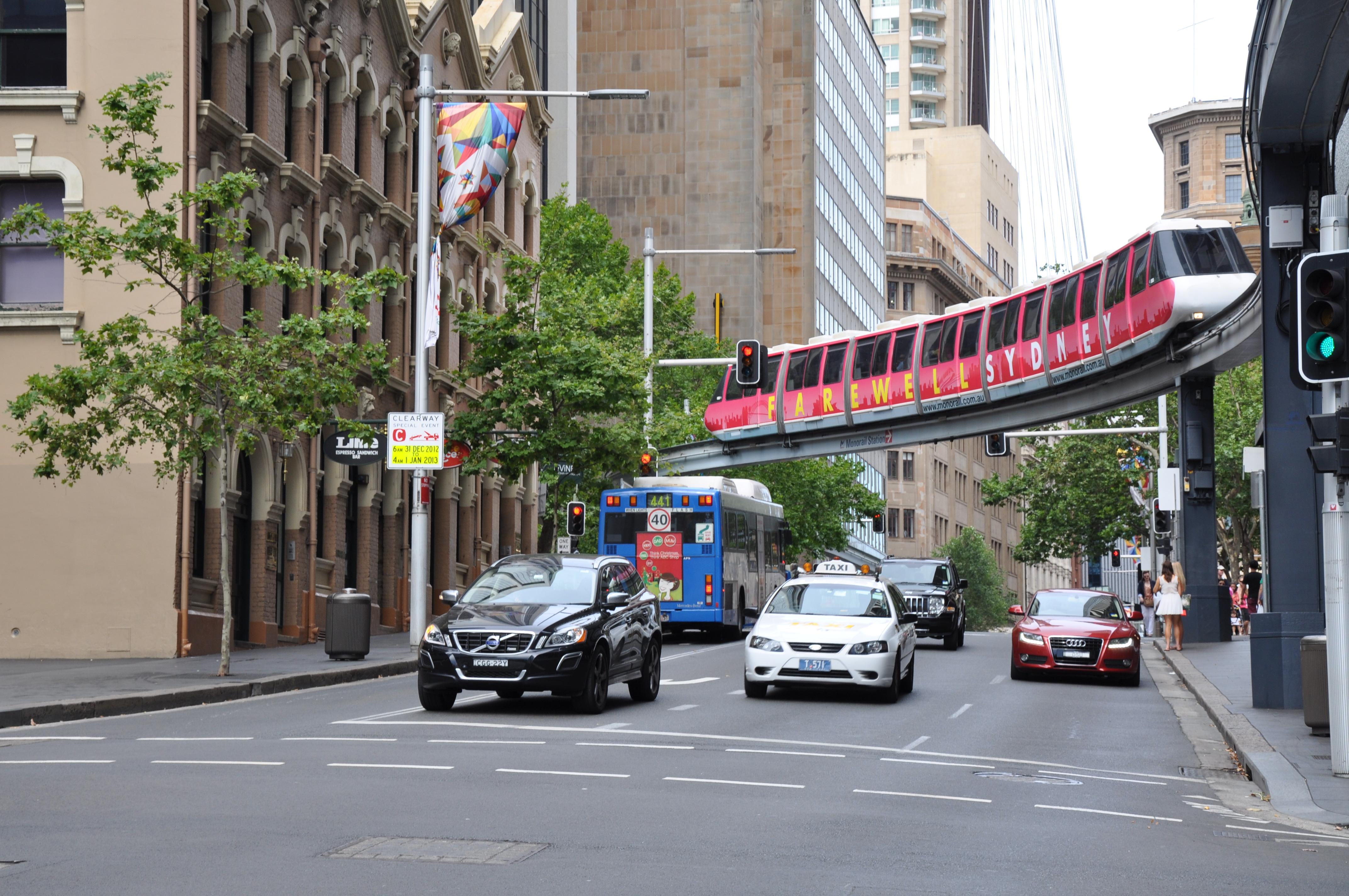 The Sydney Monorail (originally TNT Harbourlink and later Metro Monorail) was a single-loop monorail in Sydney, Australia, that connected Darling Harbour, Chinatown and the Sydney central business and shopping districts. It opened in July 1988 and closed in June 2013. There were eight stations on the 3.6 kilometre loop, with up to four trains operating simultaneously. It served major attractions and facilities such as the Powerhouse Museum, Sydney Aquarium and Sydney Convention and Exhibition Centre.